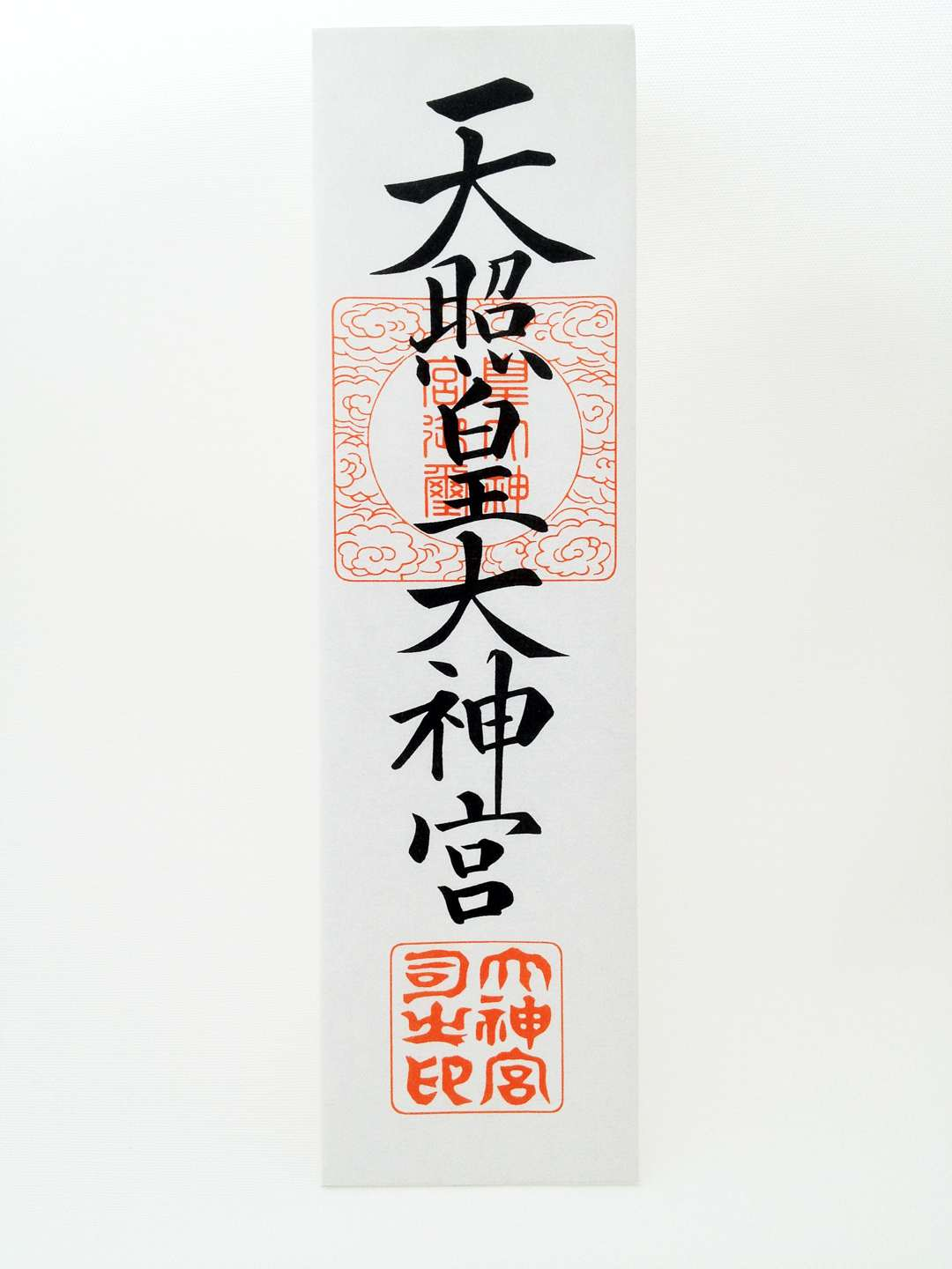 front side of Jingu Taima.